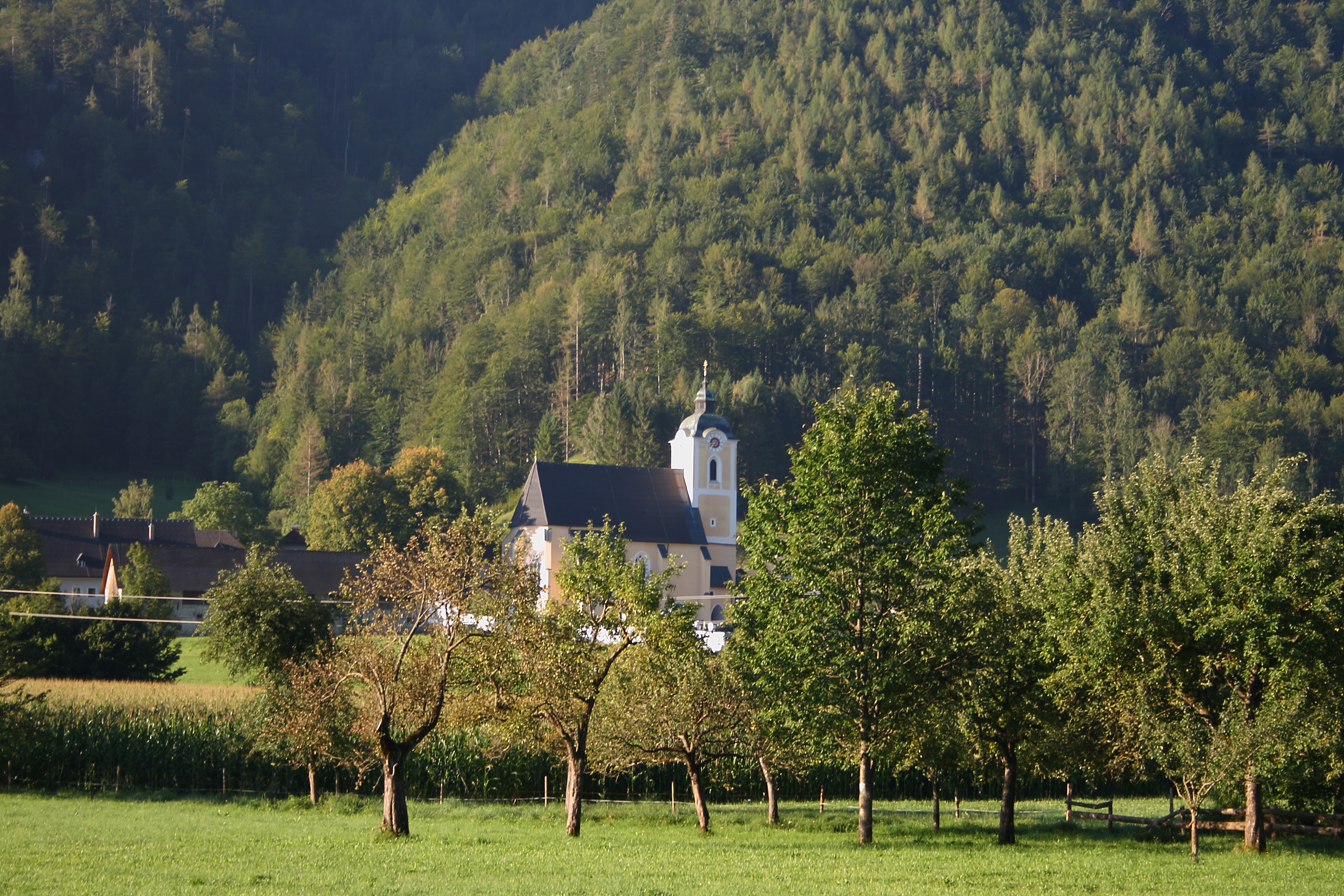 Kirchenlandl, Styria, Austria